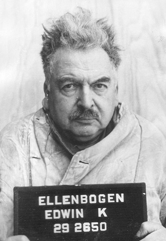 Edwin Maria Katzenellenbogen was a Nazi physician in the concentration camp of Buchenwald. In the Buchenwald Camp Trial (part of the Dachau Trials) he was sentenced to lifetime imprisonment (later modified to 15 years of imprisonment).